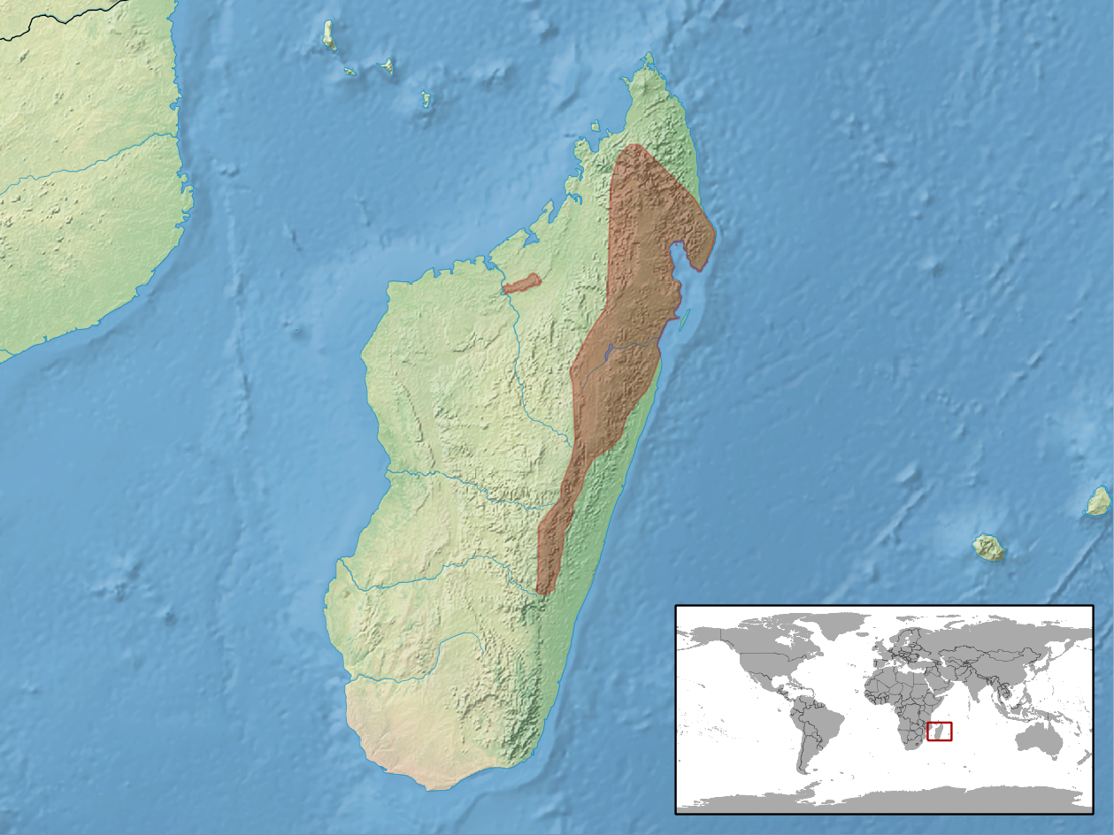 geographic distribution of Furcifer willsii (Native: Madagascar)